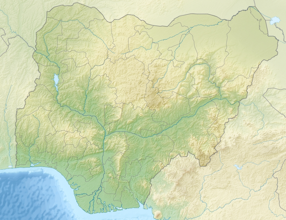 Relief location map of Nigeria. Projection: Equirectangular projection, strechted by 100.0%. Geographic limits of the map: N: 14.0° N S: 4.0° N W: 2.0° E E: 15.0° E GMT projection: -JX16.154400000000003cd/12.42646153846154cd GMT region: -R2.0/4.0/15.0/14.0r GMT region for grdcut: -R2.0/4.0/15.0/14.0r Relief: SRTM30plus. Made with Natural Earth. Free vector and raster map data @ .